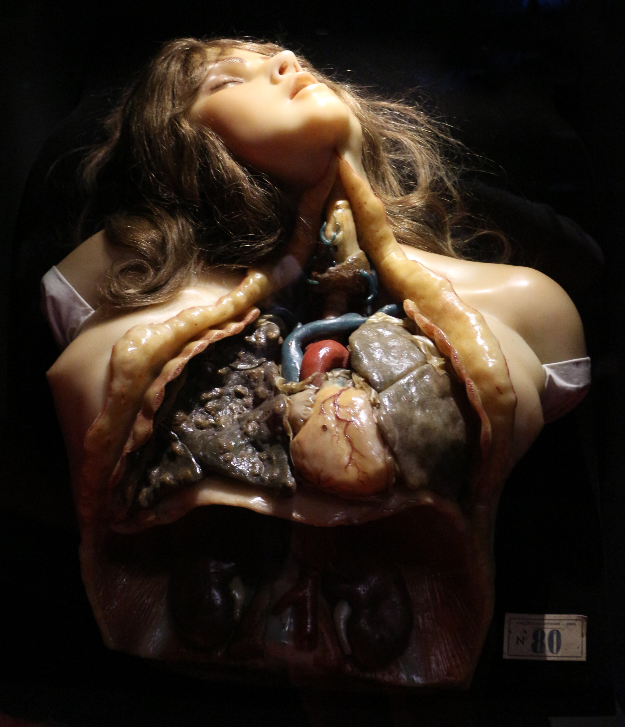 Faculté de médecine de Montpellier